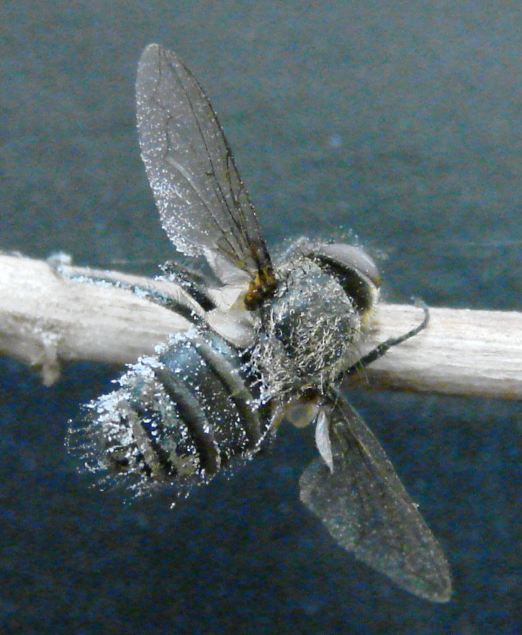 Entomophthora muscae